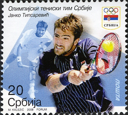 Serbian Olympic Tennis Team - Janko Tipsarevic